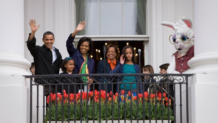 President Barack Obama and First Lady Michelle Obama are joined by their daughters, Sasha and Malia, and Michelle Obama's mother, Marian Robinson, Monday, April 13, 2009, as they wave from the South Portico of the White House to guests attending the White House Easter Egg Roll.